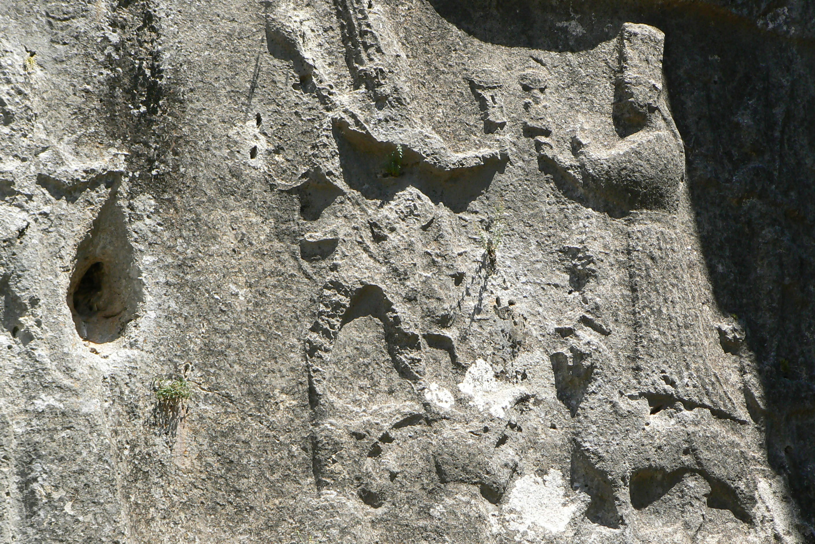 The hittite gods Teshub and Hebat, chamber A, Yazilikaya, hittite rock sanctuary, Anatolia, Turkey